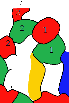 This is an illustration for Kempe's false proof of the four color theorem.